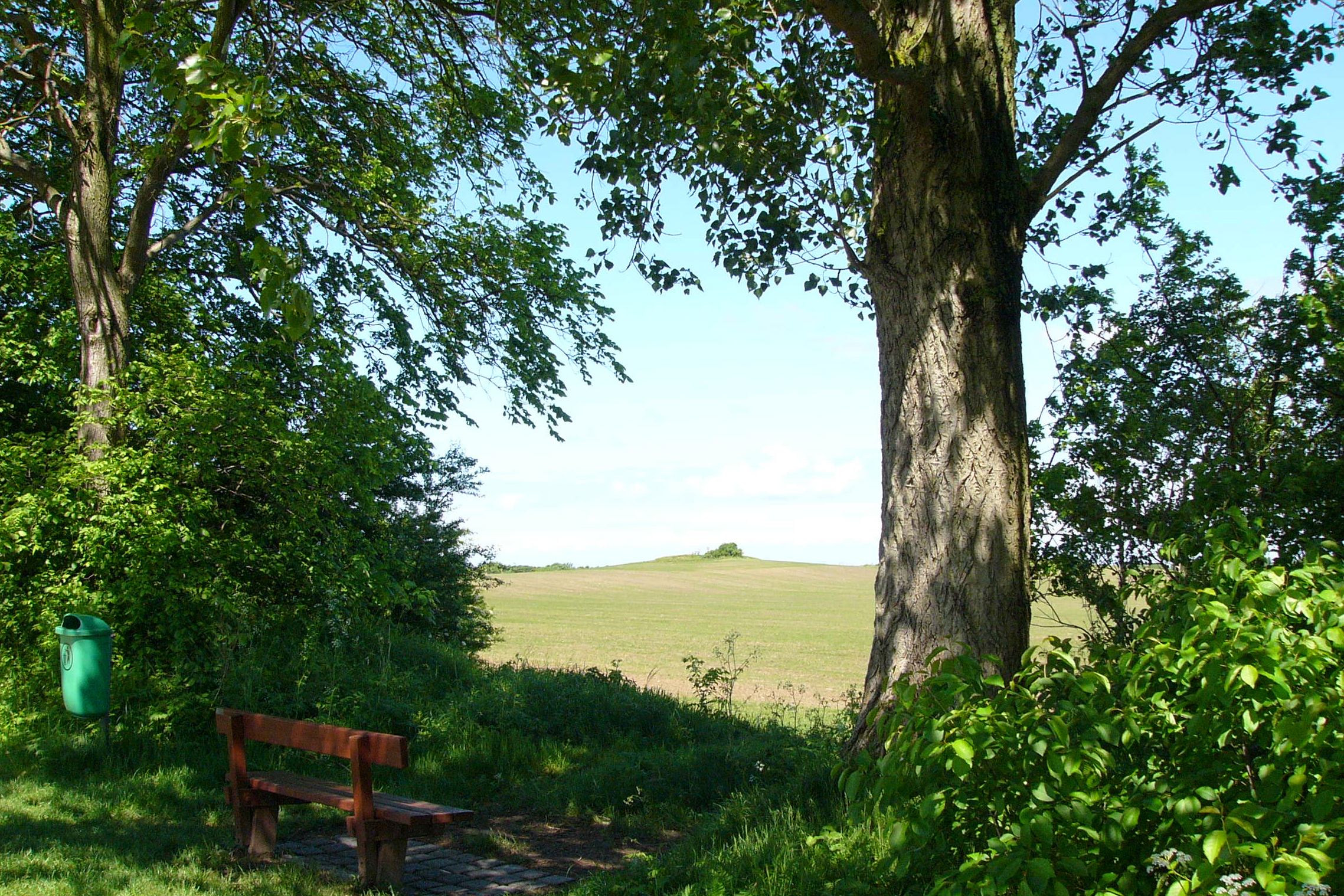 View to the Bakelberg near Ahrenshoop on the peninsula Fischland-Darss-Zingst in Mecklenburg-Vorpommern, Germany.